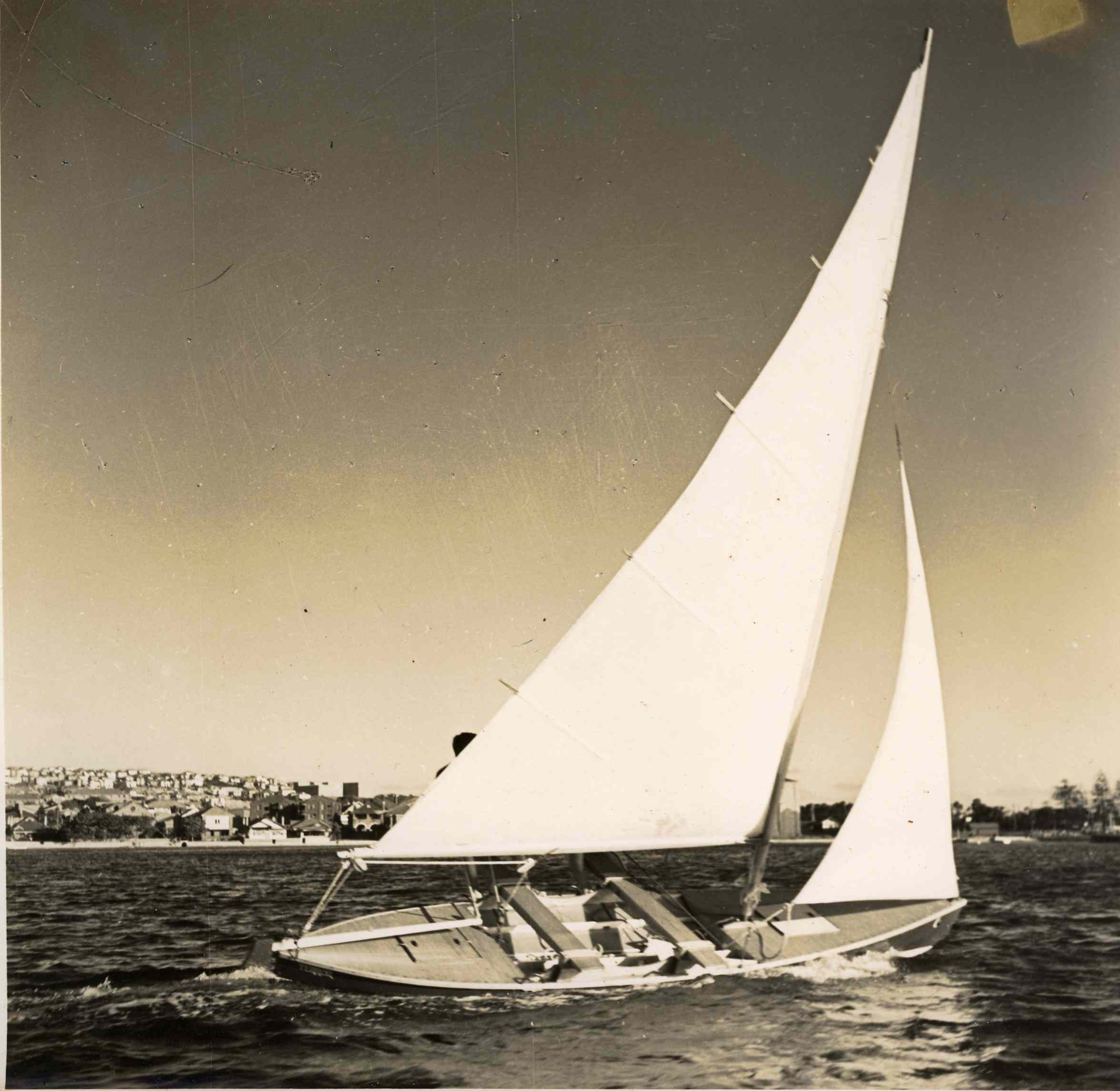 The Payne-Mortlock Sailing Canoe during one of it's first voyages